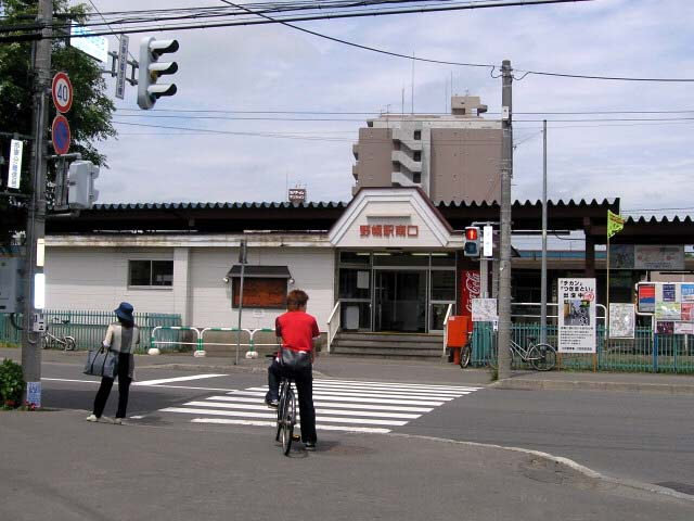 Nopporo Station in Hakodate Main Line, Japan